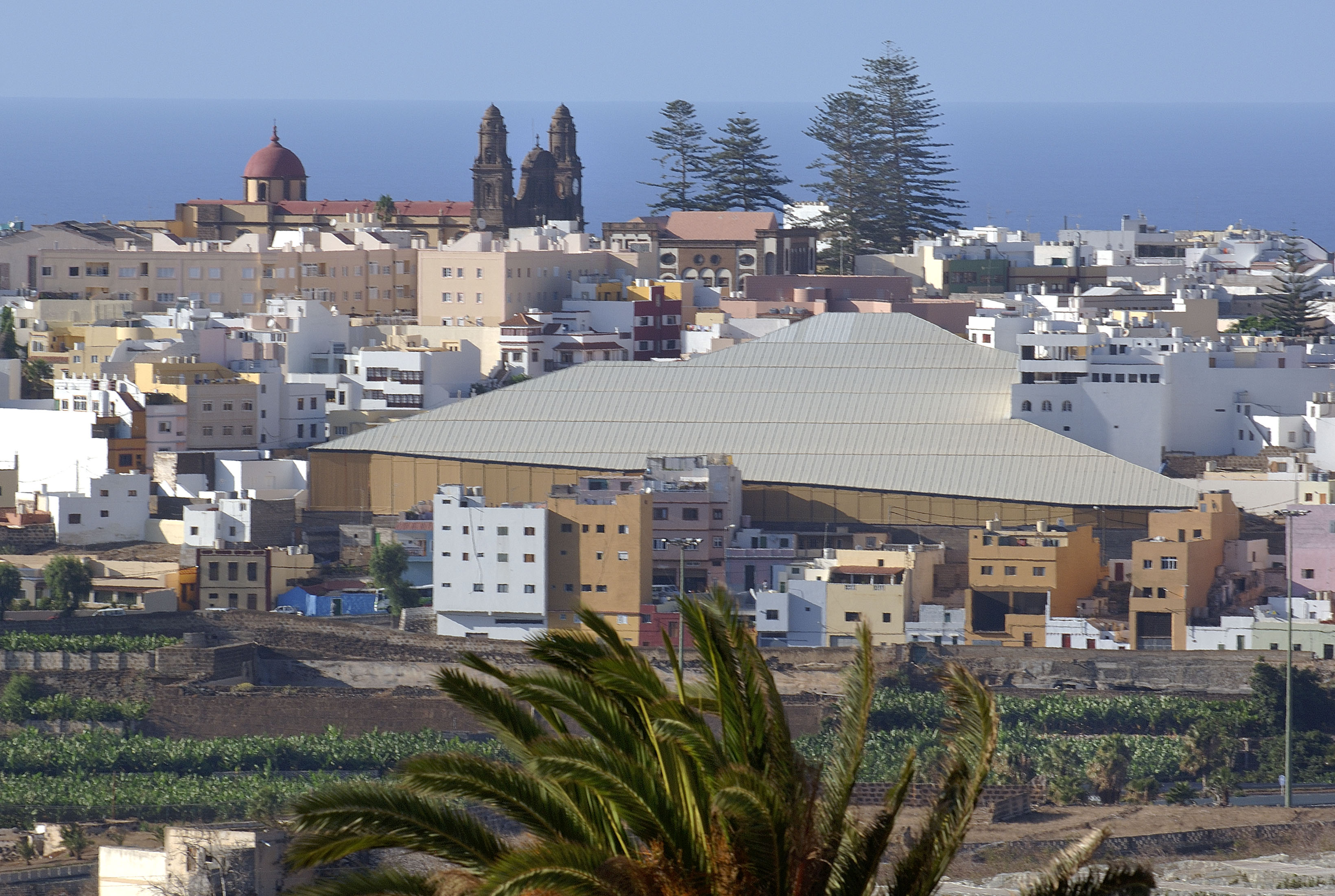 Cueva Pintada. Looking N-W from the GC-2 road. Behind the museum, slightly on the left: the two towers of the Santiago de los Caballeros church.